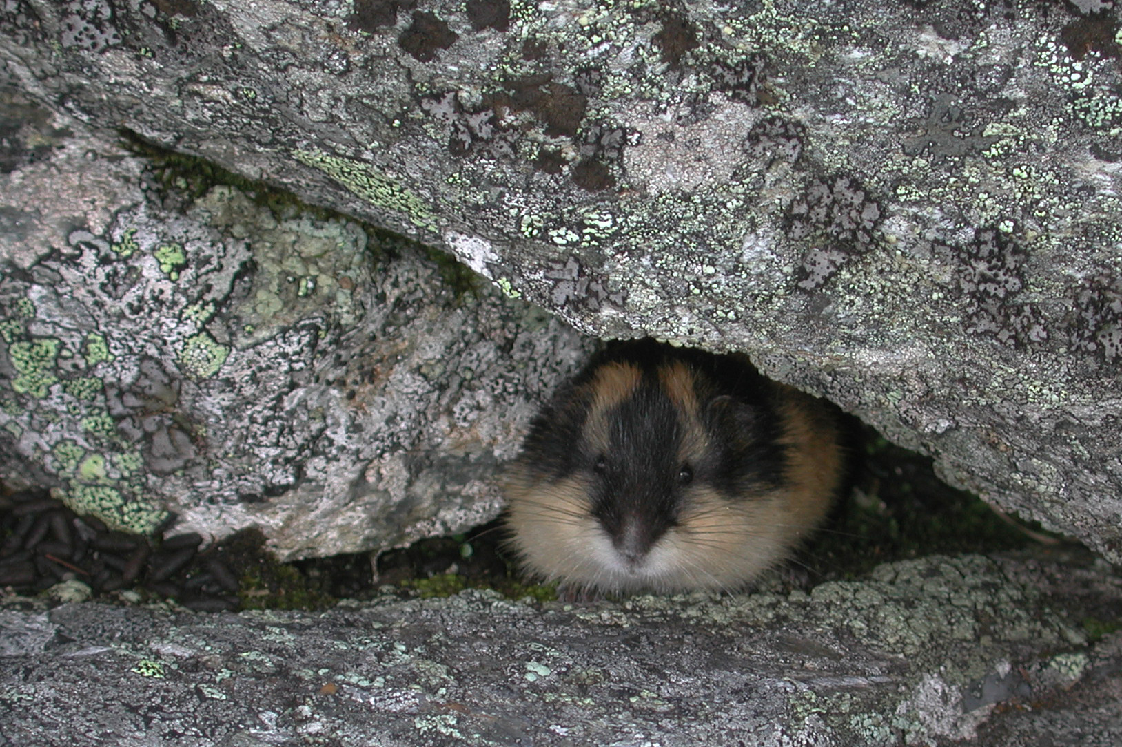 Norway lemming, in mount Njuolja, Abisko national park